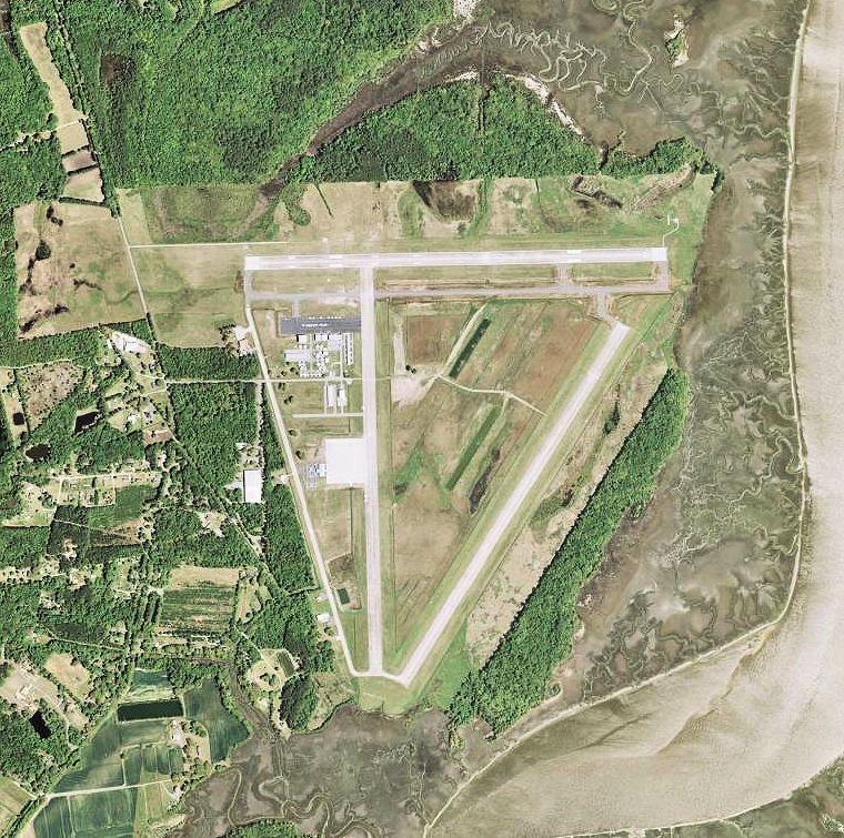 USGS digital orthophoto of Charleston Executive Airport in South Carolina